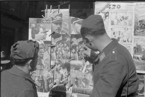 Palermo (Sicily), summer 1941.